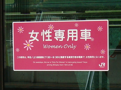 A "Women Only" sticker put on a window of JR East Railway`s Chuo Line Train. Translation: "WOMEN-ONLY CAR" "This car is exclusively for women. This rule is valid for the trains which arrive at Shinjuku station between 7:30 AM to 9:30 AM on weekdays."